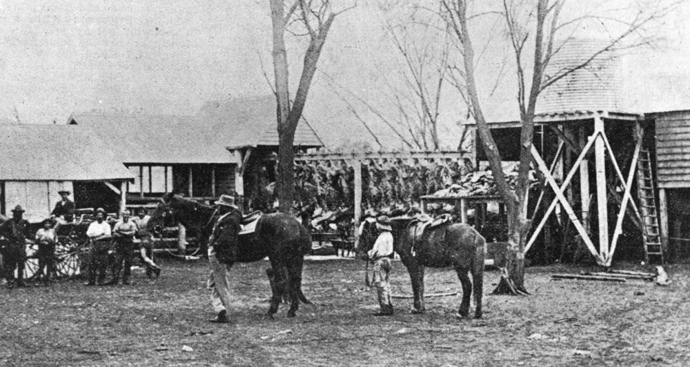 Armstrong's Boiling Down Works, Charleville, 1898. In 1885 J. Armstrong established a butchering trade in Charleville. As an extension to this he established this boiling down works ca. 1886. The property was purchased from Campbell Brothers. In ca. 1902 the boiling works were turned into a wool scour. Today the site is occupied by the BP Depot. (Description supplied with photograph). There are several buildings forming the meat works. A rack with meat hanging from it can be seen between the buildings. Men, horses and a wagon are pictured in front of the buildings.